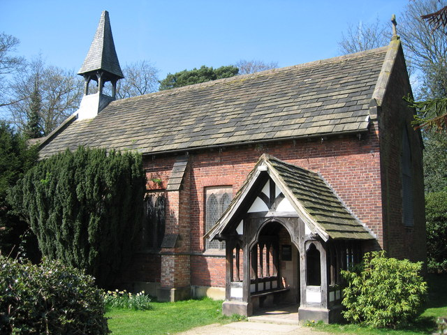 Norcliffe Chapel, Styal Village, near to Styal, Cheshire, Great Britain. Quarry Bank Mill was founded by Samuel Greg in 1784 on the River Bollin. The Greg family were Unitarians and in 1867 built Norcliffe Chapel in Styal village.